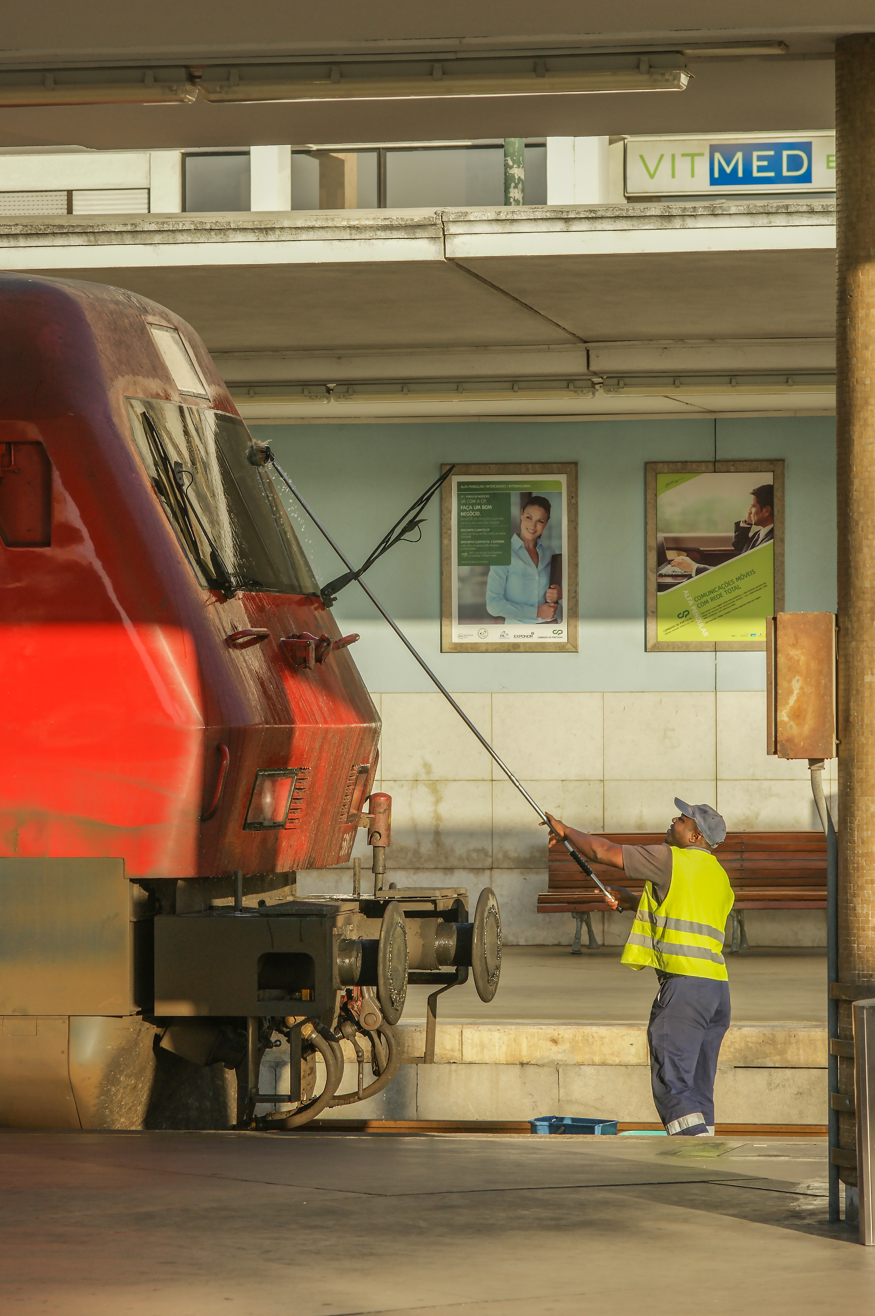 Staff cleans a locomotive of type 5600 at Lisbon's Santa Apolónia train station, Lisbon, Portugal